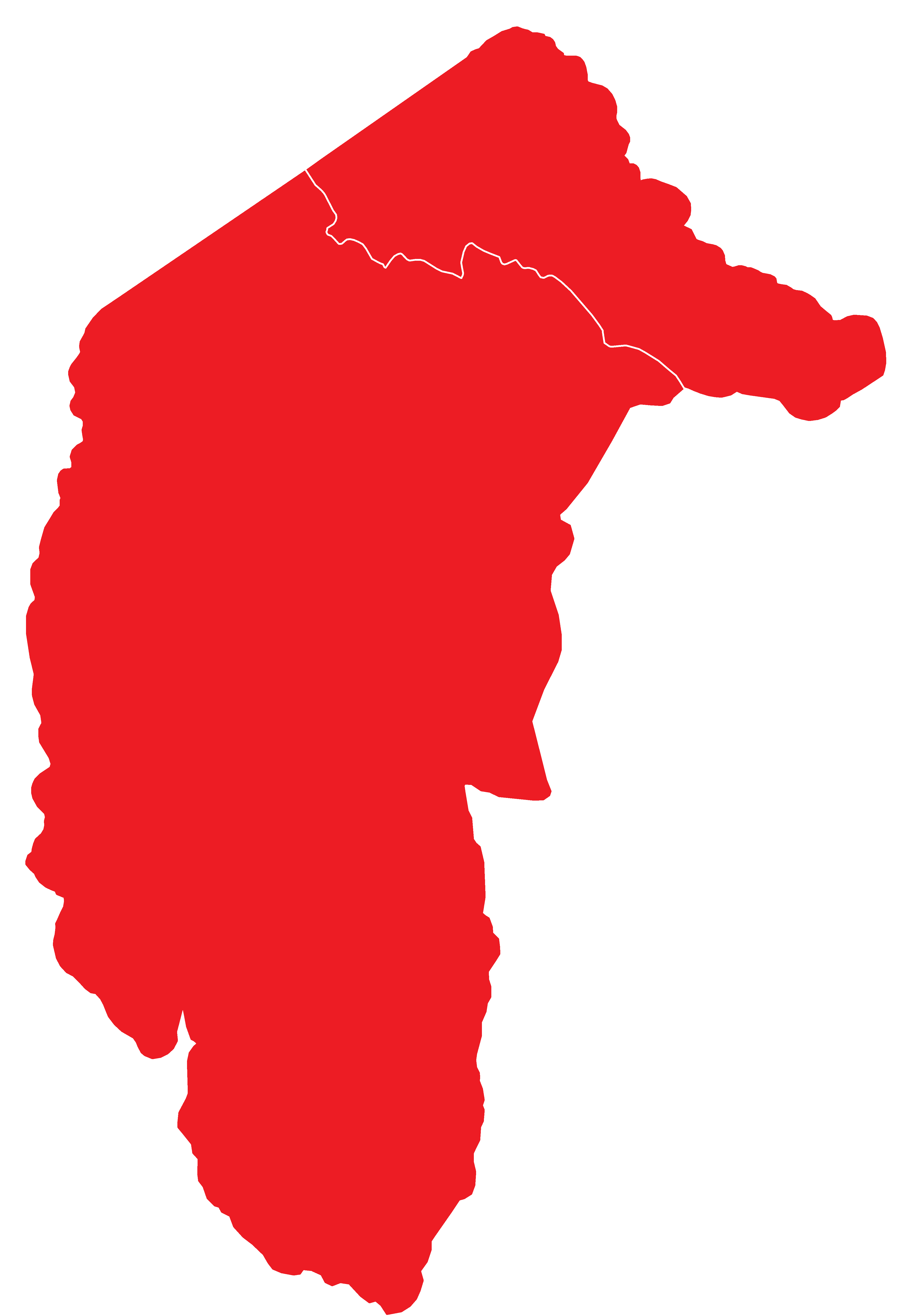 Results map of the Australian federal election, 2016 in the Australian Capital Territory, showing federal electorates decorated in the color representing a win by a particular party.